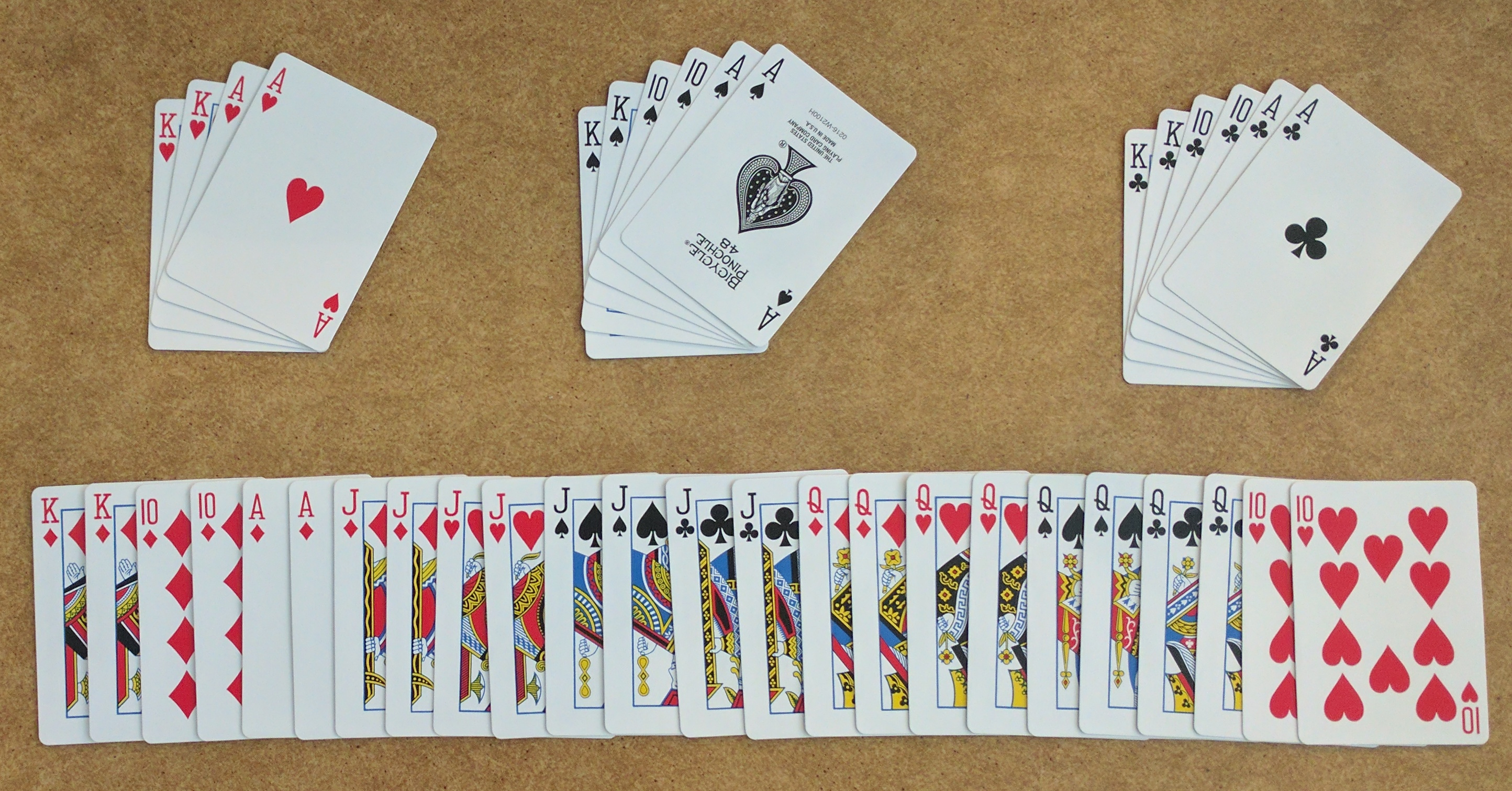 A 40-card Doppelkopf deck showing the three non-trump suits (four hearts, six spades, and six clubs), and the larger trump suit.